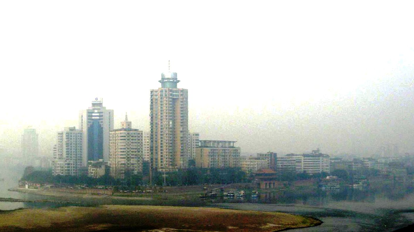 Skyline of Leshan, Sichuan, China